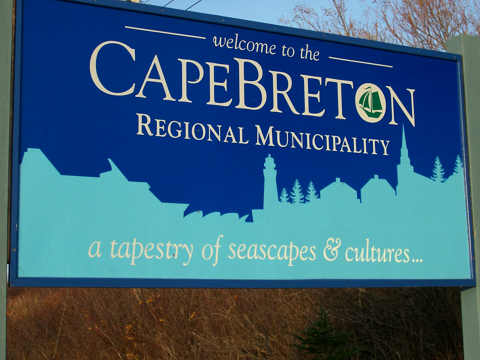 Cape Breton Regional Municipality welcome sign (photo taken by me)